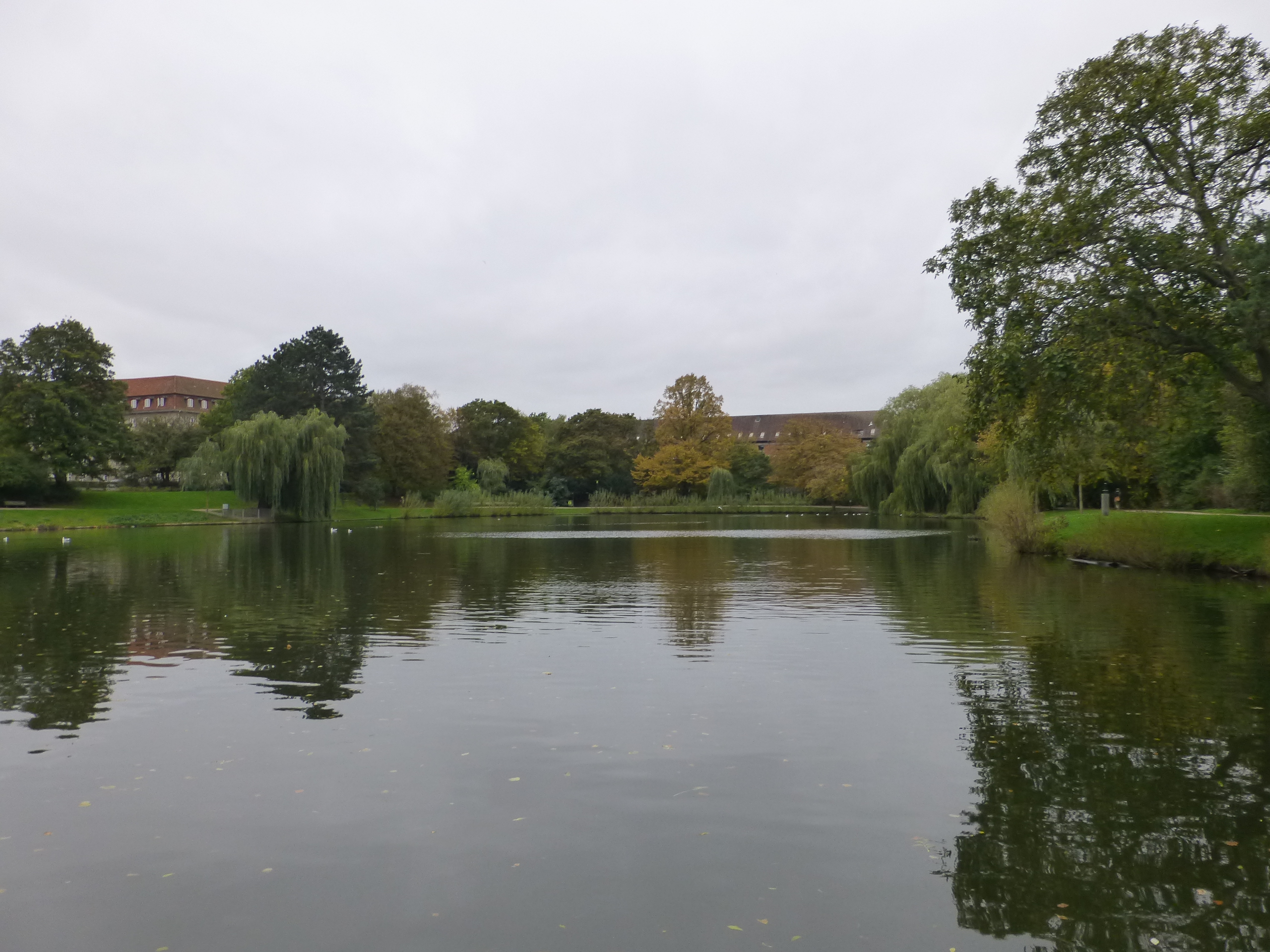 The park Kildevældsparken with the lake Kildevældssøen in Østerbro in Copenhagen.